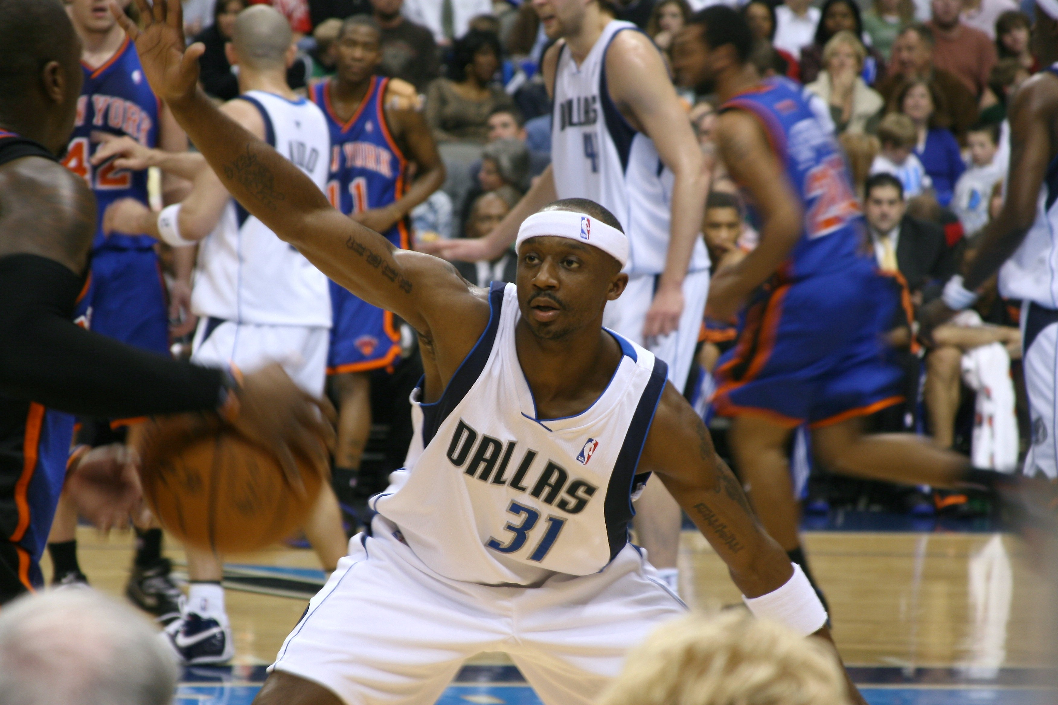 Jason Terry of the Dallas Mavericks